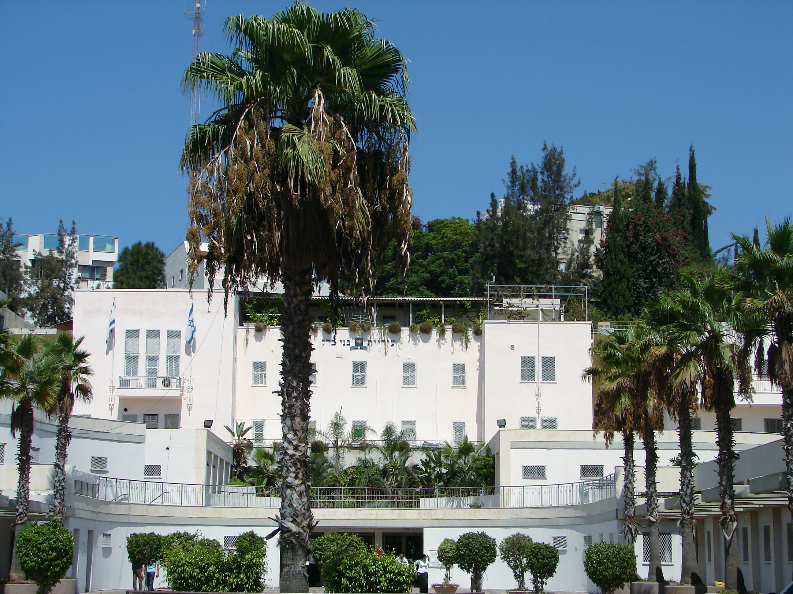 City Hall of Bnei Brak, Israel